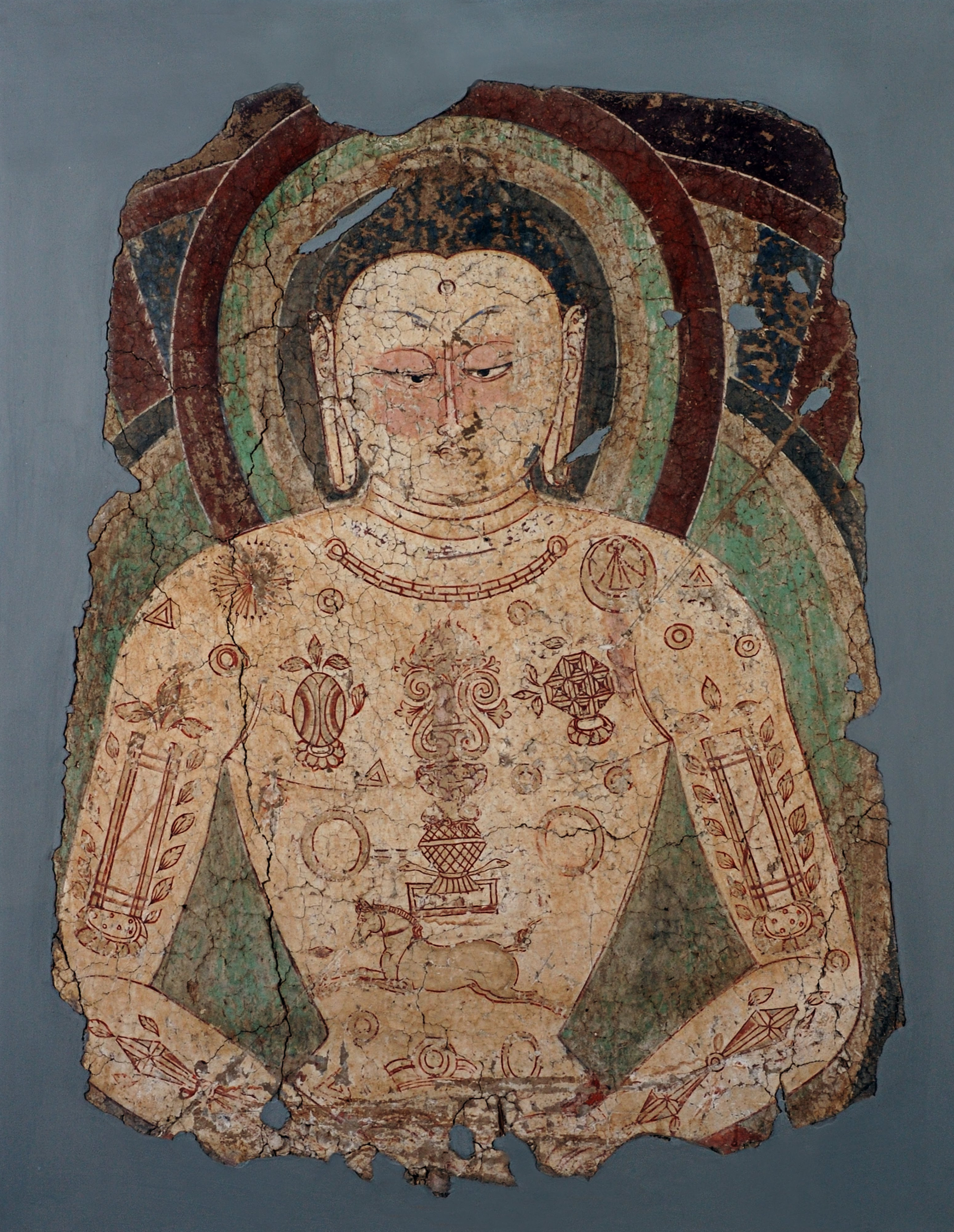 Mural of Vairochana Buddha, from Balawaste, Khotan, an ancient Iranian kingdom, with crescent moon and sun symbols, and Shrivatsa impression on chest-typically seen on Vishnu. 4th–6th century or 7th–8th century. National Museum, New Delhi, Stein Collection of Central Asian Antiquities.